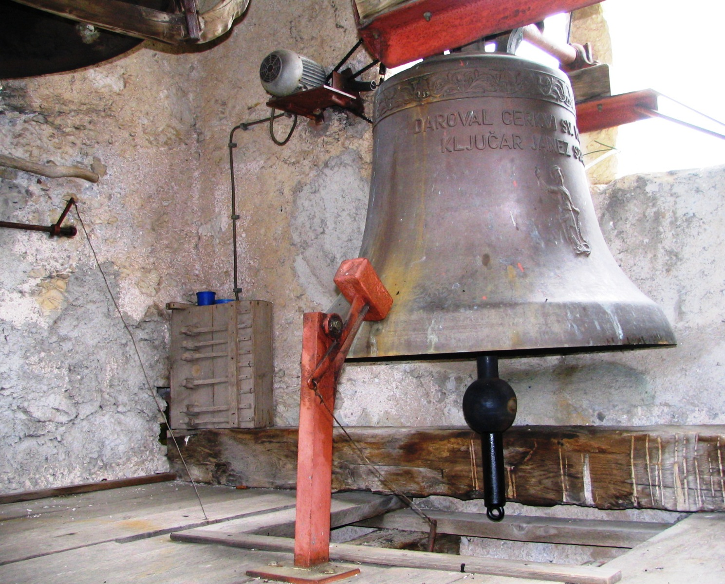 Interior of the bell tower of the Church of Saint Margaret in Žlebe, Municipality of Medvode, Slovenia, showing a mechanized bell (right) and the ratchet (Sln. raglja, left) used during the Paschal Triduum.